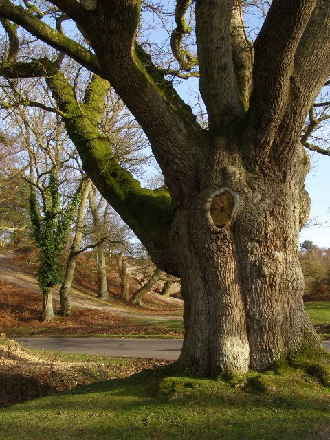 The Moyles Court Oak. A close-up of the huge oak standing alongside the Dockens Water ford near Moyles Court. In the background is the disused sandpit on the edge of Rockford Common. The road behind the tree leads to the left towards Linwood. See this geograph for a view of the tree in its wider context: 315768.